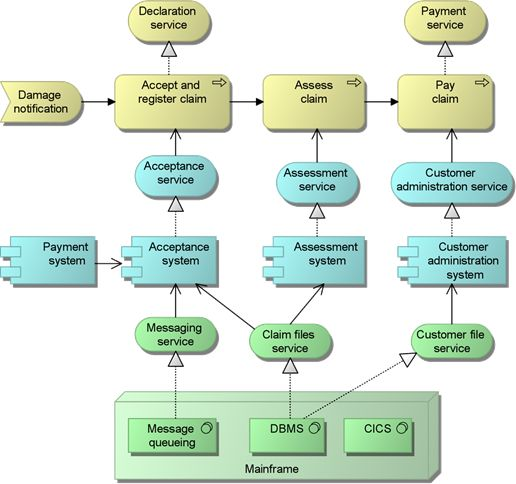 ArchiMate example